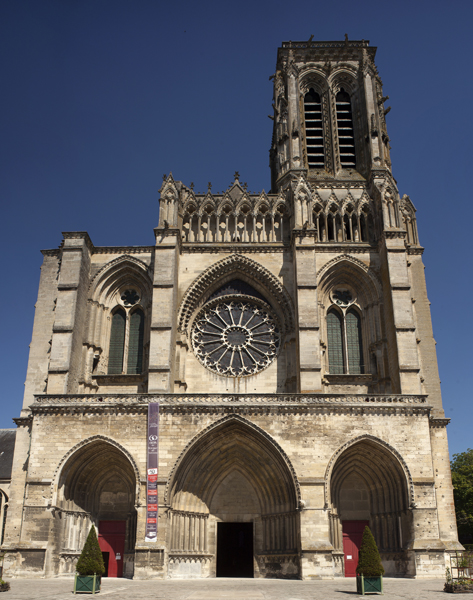 Soissons; Cathédrale; Nord-Pas-de-Calais-Picardie, Aisne; France; ref: PM_103198_F_Soissons; Cultural heritage; Cultural heritage/Cathedral; Europe/France/Soissons; Wiki Commons; photo: Paul M.R.Maeyaert; © Paul M.R. Maeyaert